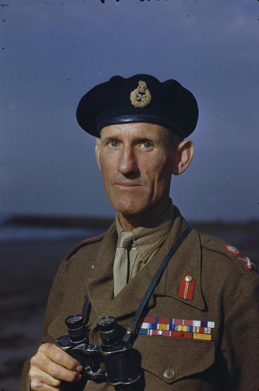 New Eighth Army Commander at Tac Eighth Army Headquarters, Italy, 1 October 1944 Lieutenant General Sir Richard McCreery, KCB, CBE, DSO, MC, ex-Commander 10 Corps, with binoculars on the day that he took over command of the Eighth Army from Lieutenant General Sir Oliver Leese.